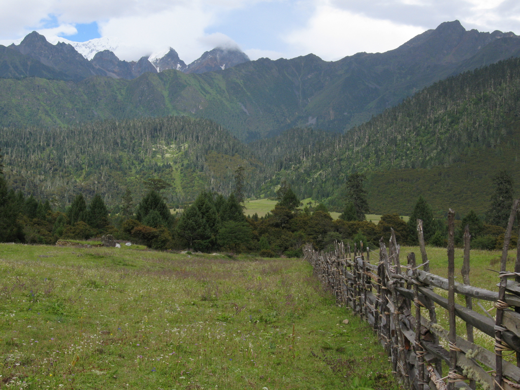 Southeast of Chamdo (Qamdo) town, Chamdo County, Tibet